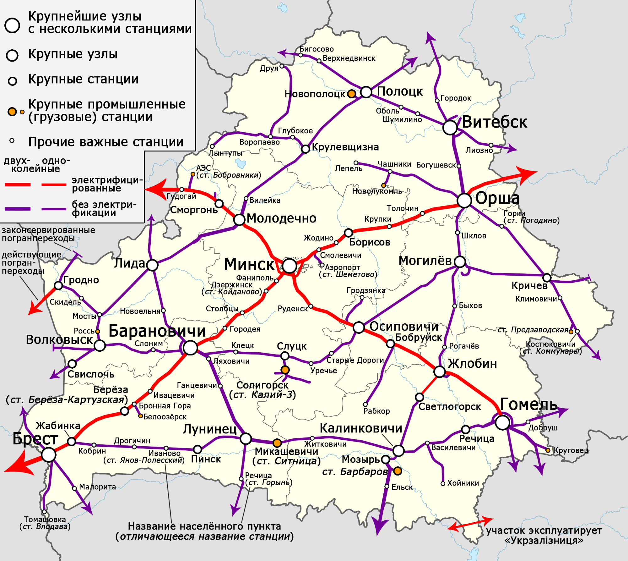 Map of railways in Belarus